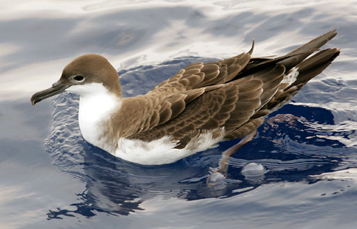 Greater Shearwater, Puffinus gravis, Location: Gulf Stream off of Hatteras, North Carolina, United States